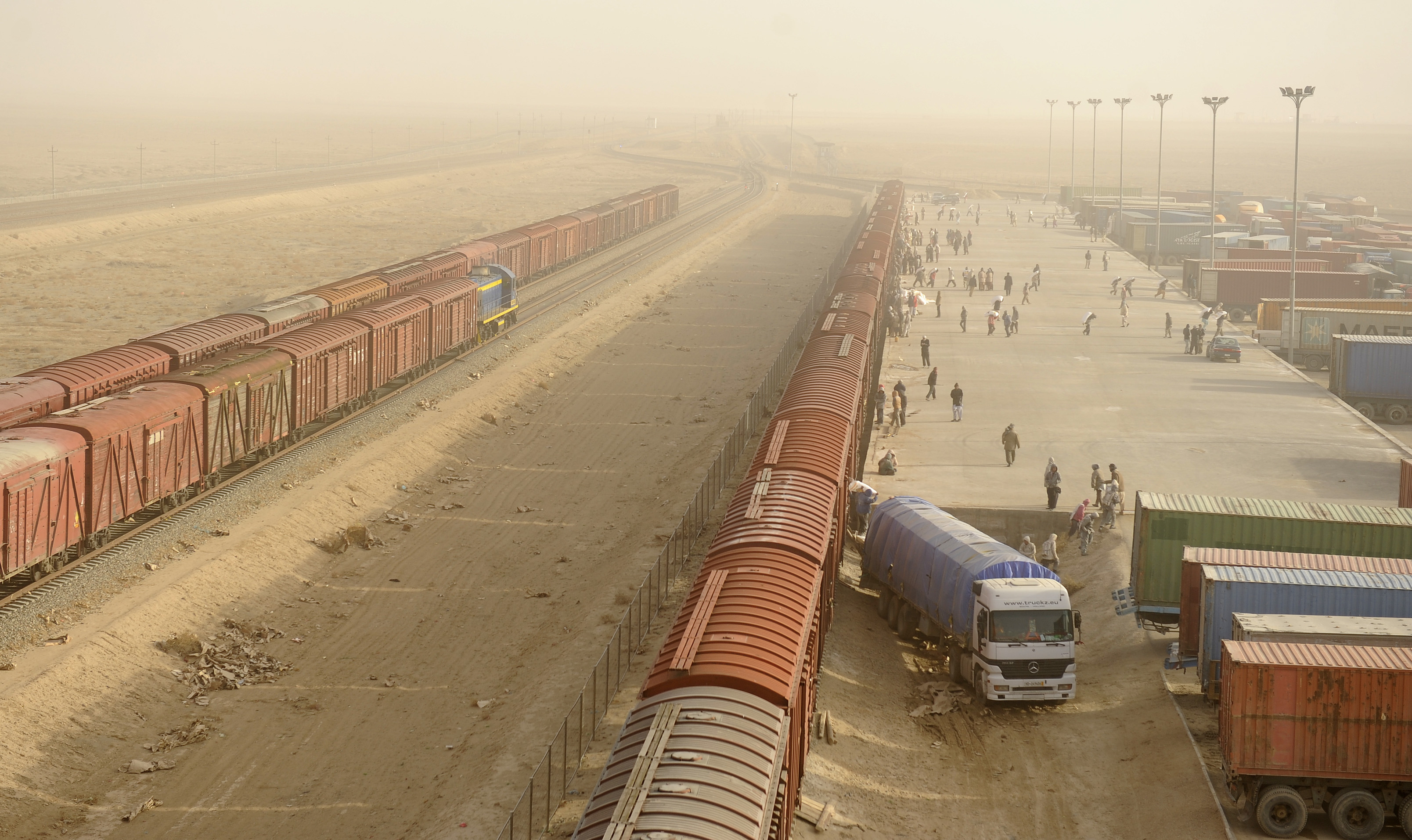 Railway terminal in Mazar-e-Sharif, Afghanistan, January 5, 2014.